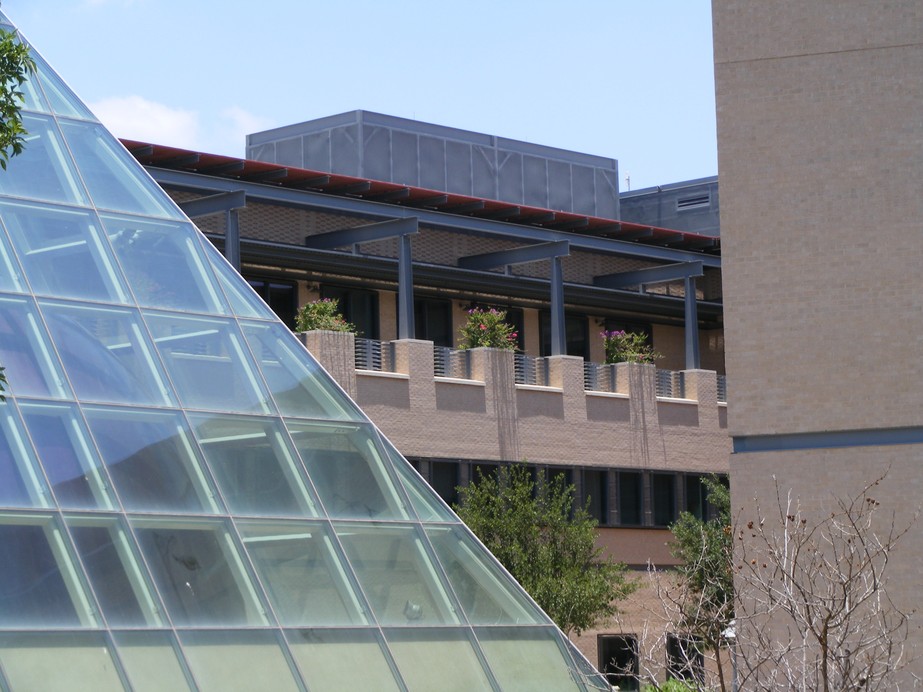 Lamar Bruni Science Center in TAMIU in Laredo, Texas